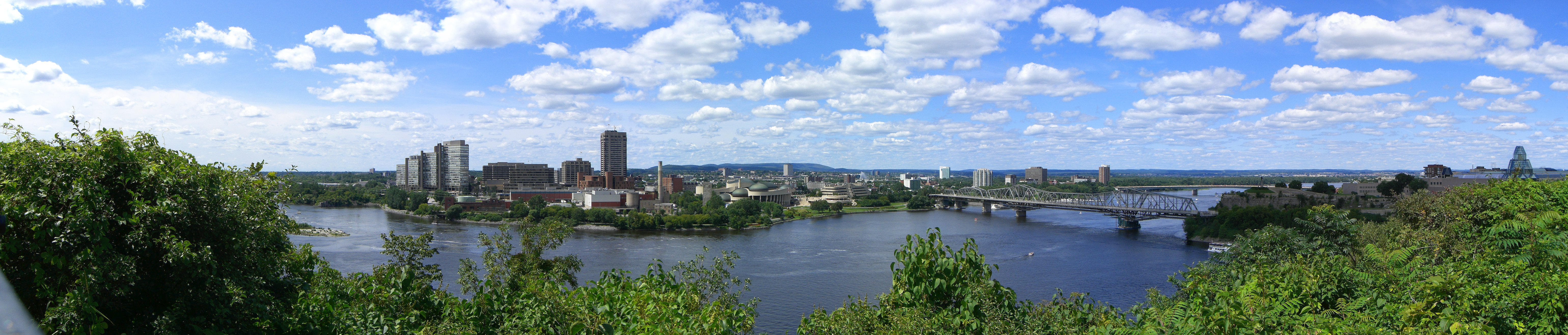 The panorama of Ottawa from the Parliament Hill. 中文（香港）: 攝影自渥太華國會山的全景照。